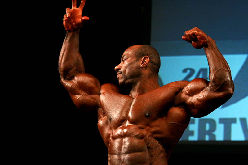 Dexter Jackson 2008 IFBB Australian Pro Grand Prix VIII